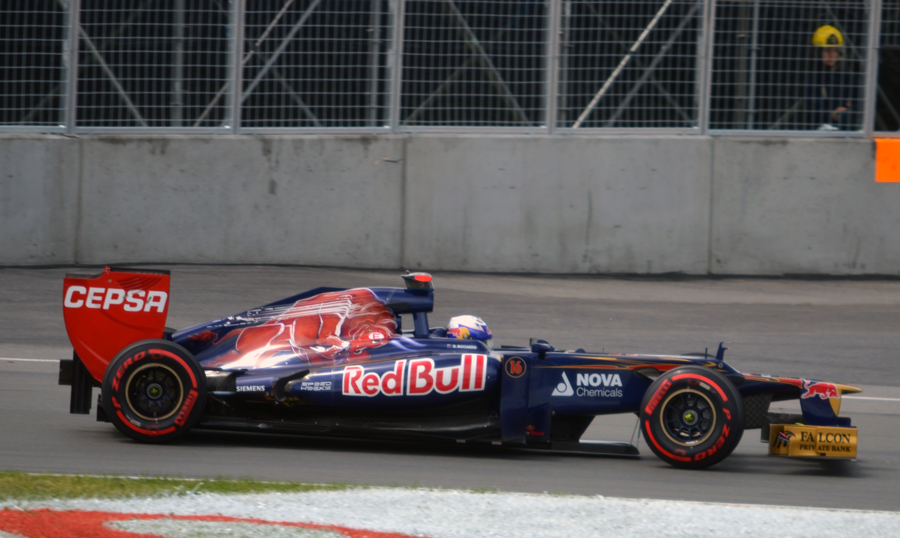 Daniel Ricciardo in the Toro Rosso - Ferrari STR7 at L'Epingle hairpin corner of Circuit Gilles Villeneuve during second practice for the 2012 Canadian Grand Prix.